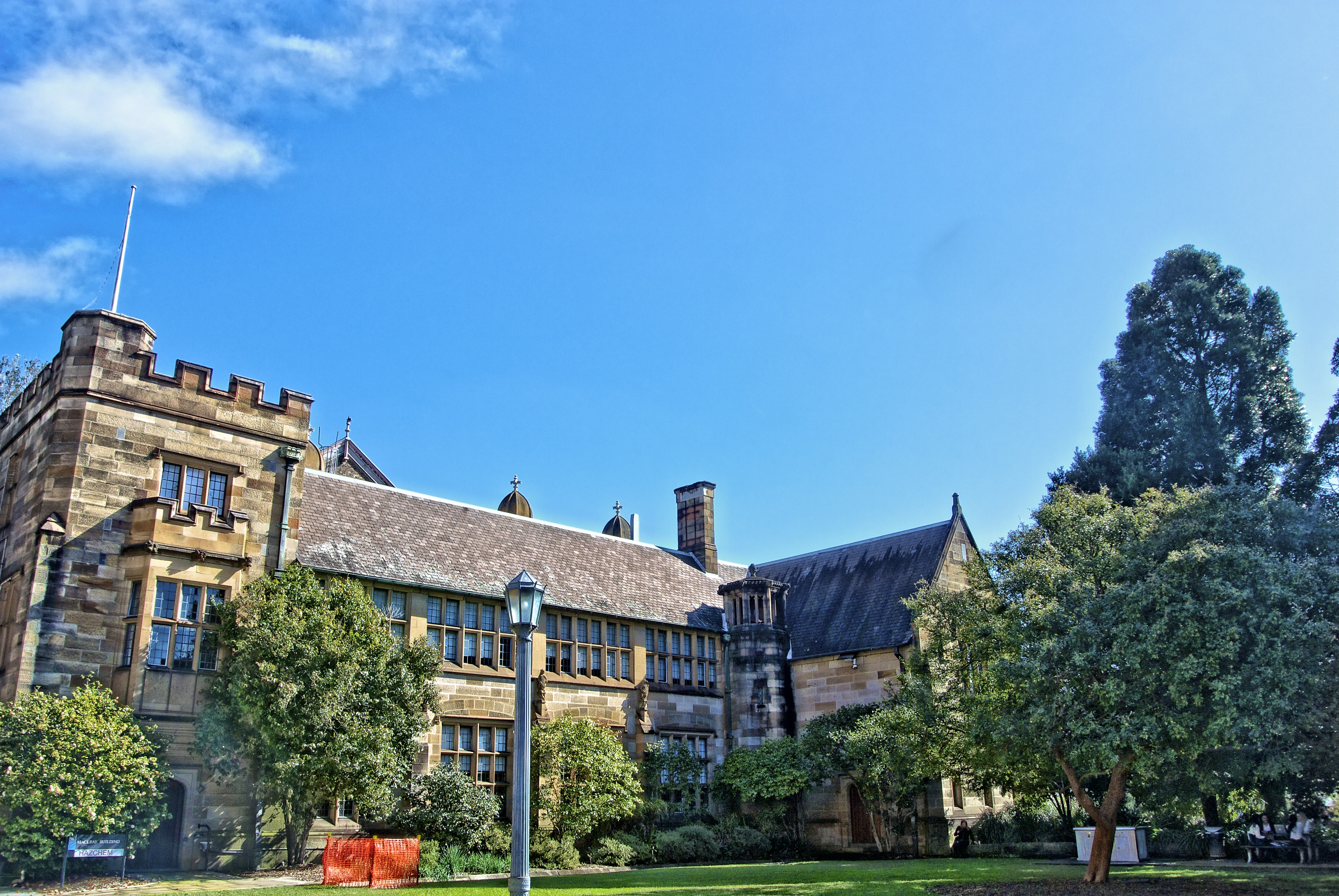 Eastern facade